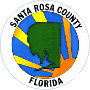 Seal of Santa Rosa County, Florida